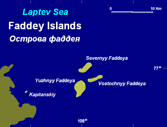 color map